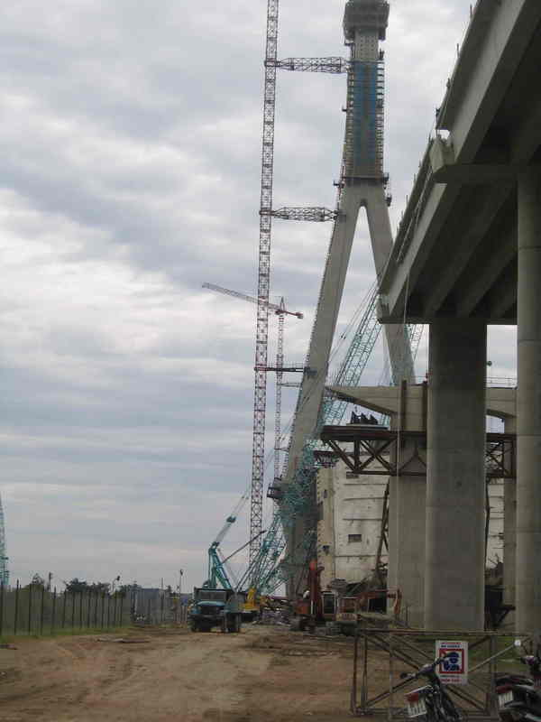 collapsed part of Can Tho Bridge in Vietnam. Copyright of this image has been released by a Vietnamese wikipedian with licensing as "public domain"